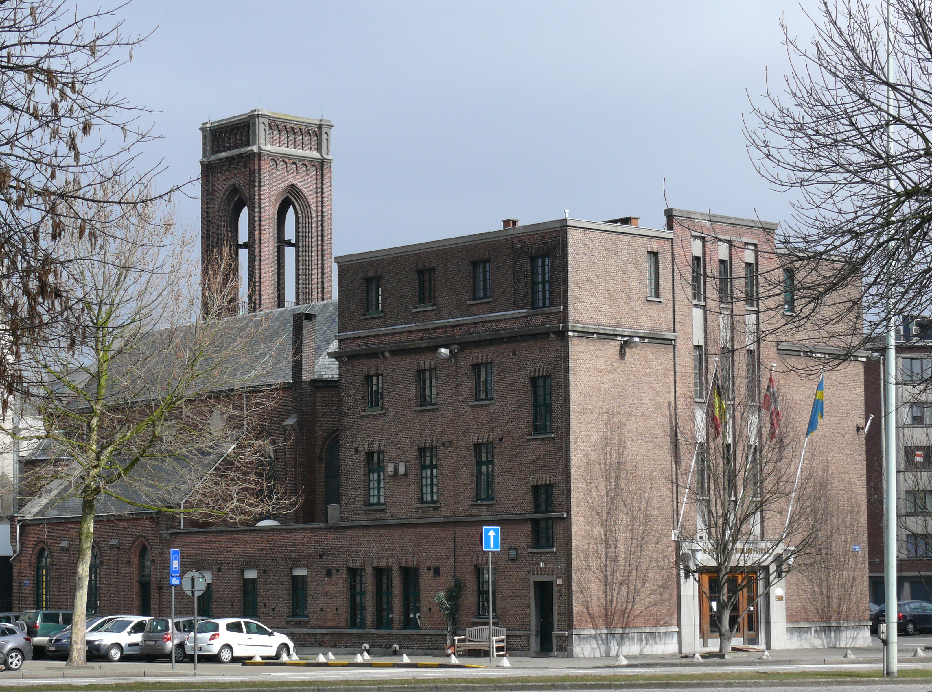 Norwegian seamen's church in Antwerp, built in 1870, restored in 1930.